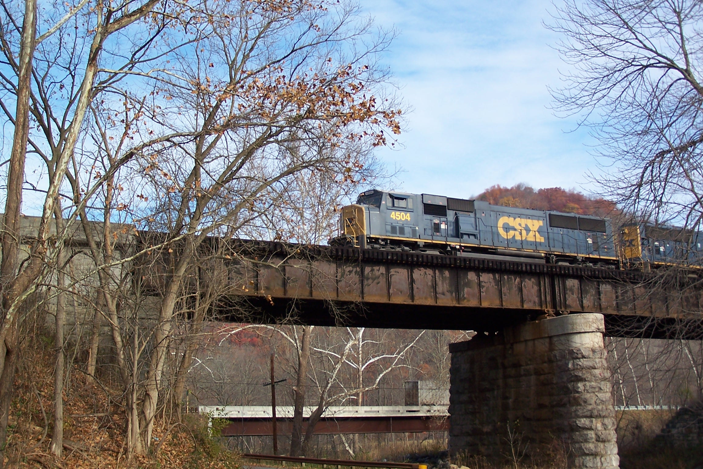 CSX 4504 and 45850, both SD70MAC's crosses a small creek while still in Virginia. The train will shortly pass through a tunnel on way west across the Appalachians.